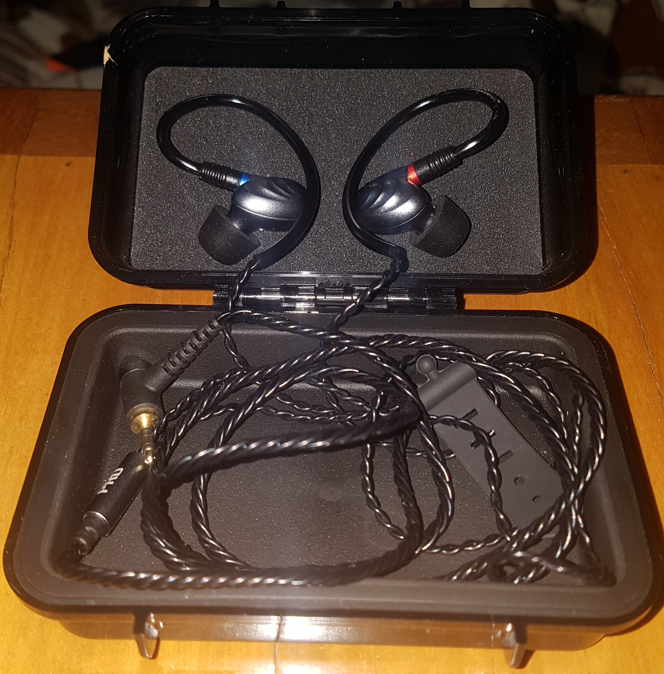 Dmatteng, Samsung S7